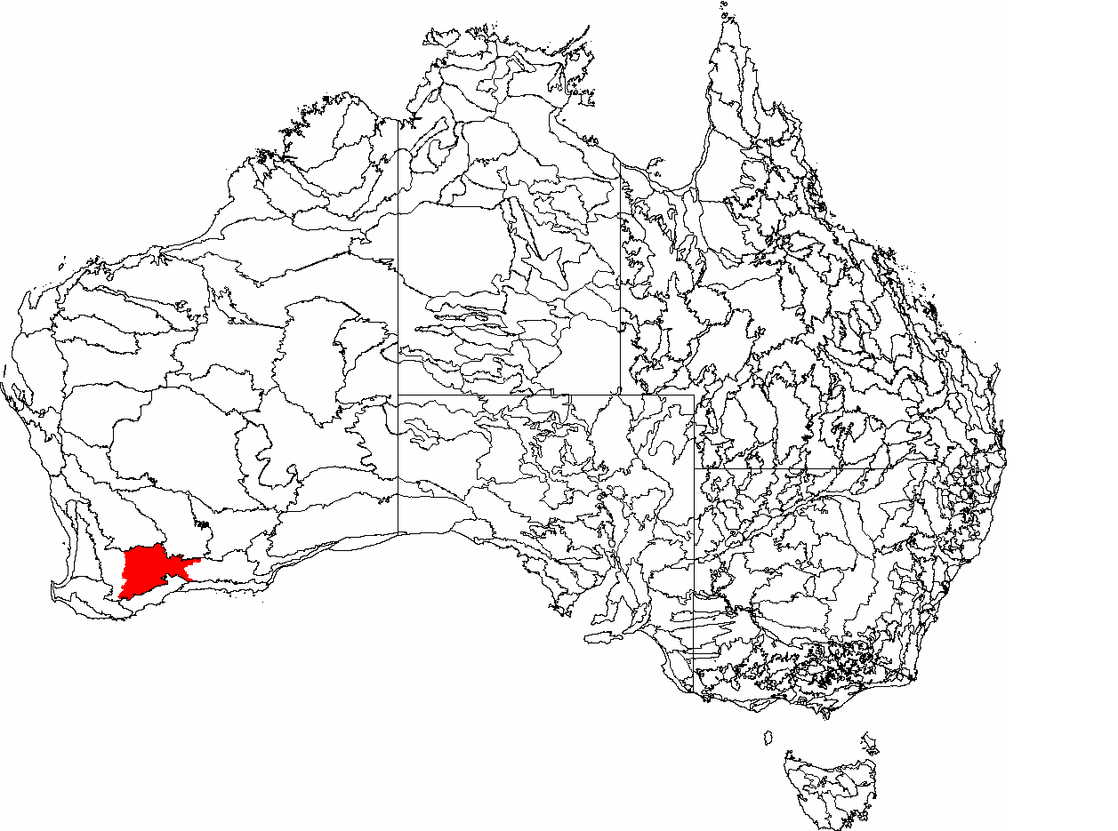 This is a map of the Interim Biogeographic Regionalisation of Australia (IBRA) subregions, with state boundaries overlaid. The Western Mallee region (MAL2) is shown in red.